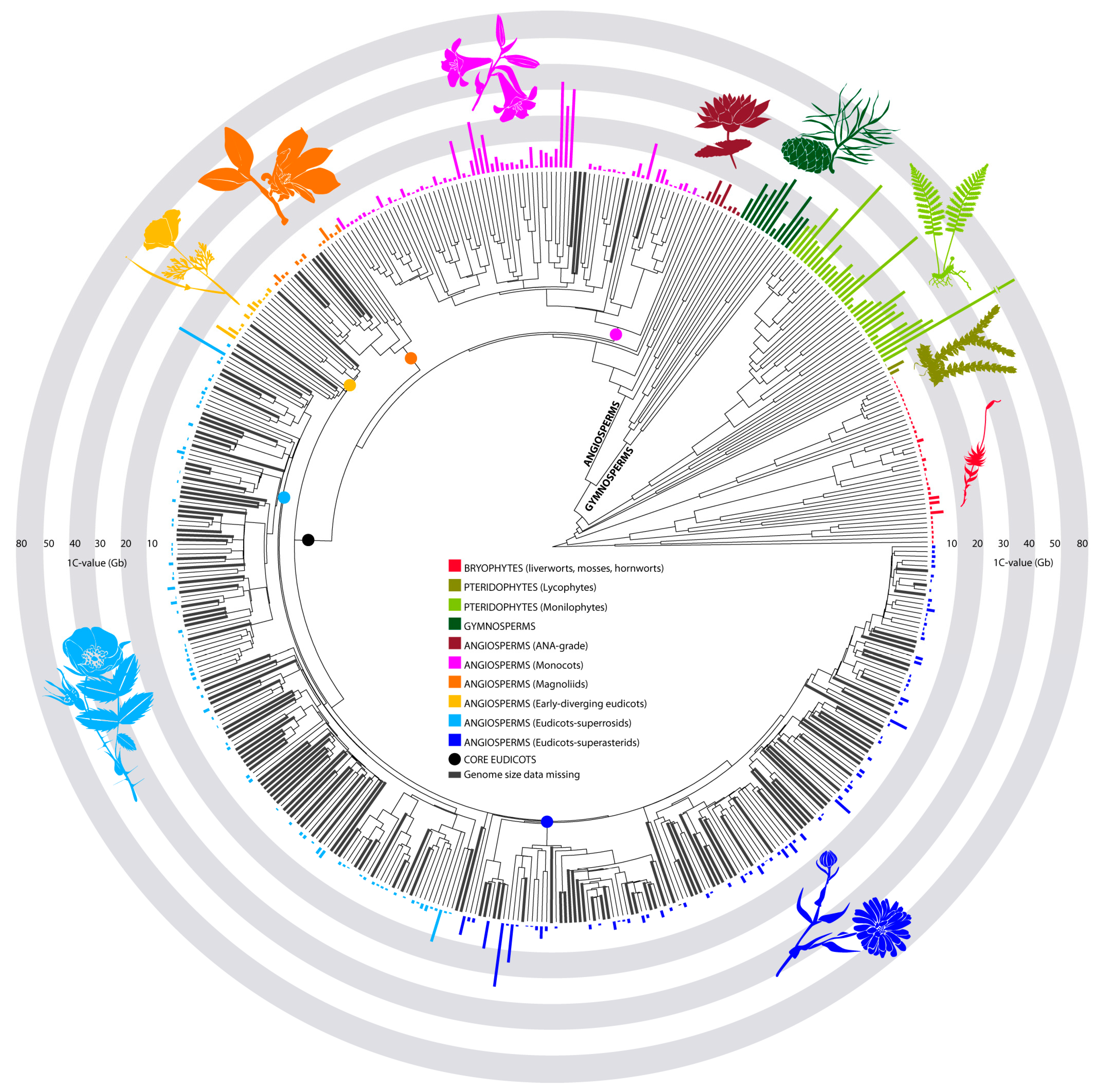 Phylogenetic tree illustrating the main taxonomic lineages across land plants summarized at the family leve